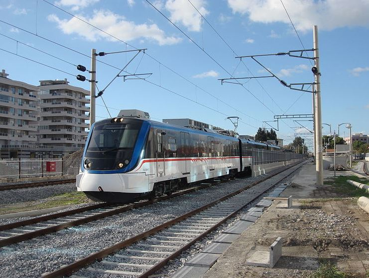 A southbound İZBAN train at Çiğli station on opening day of the Northern Line.